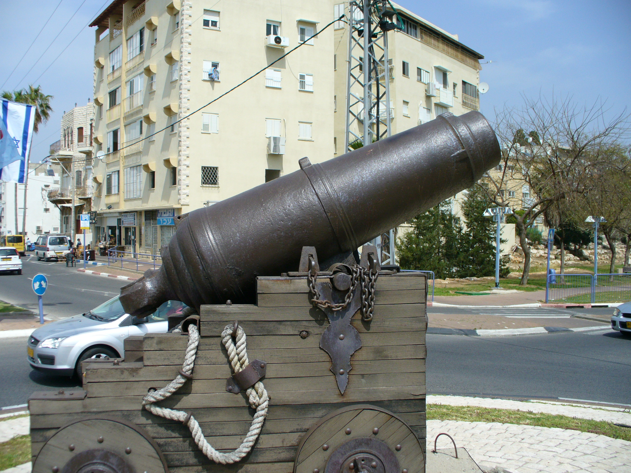 A carronade near Old Acre, Israel